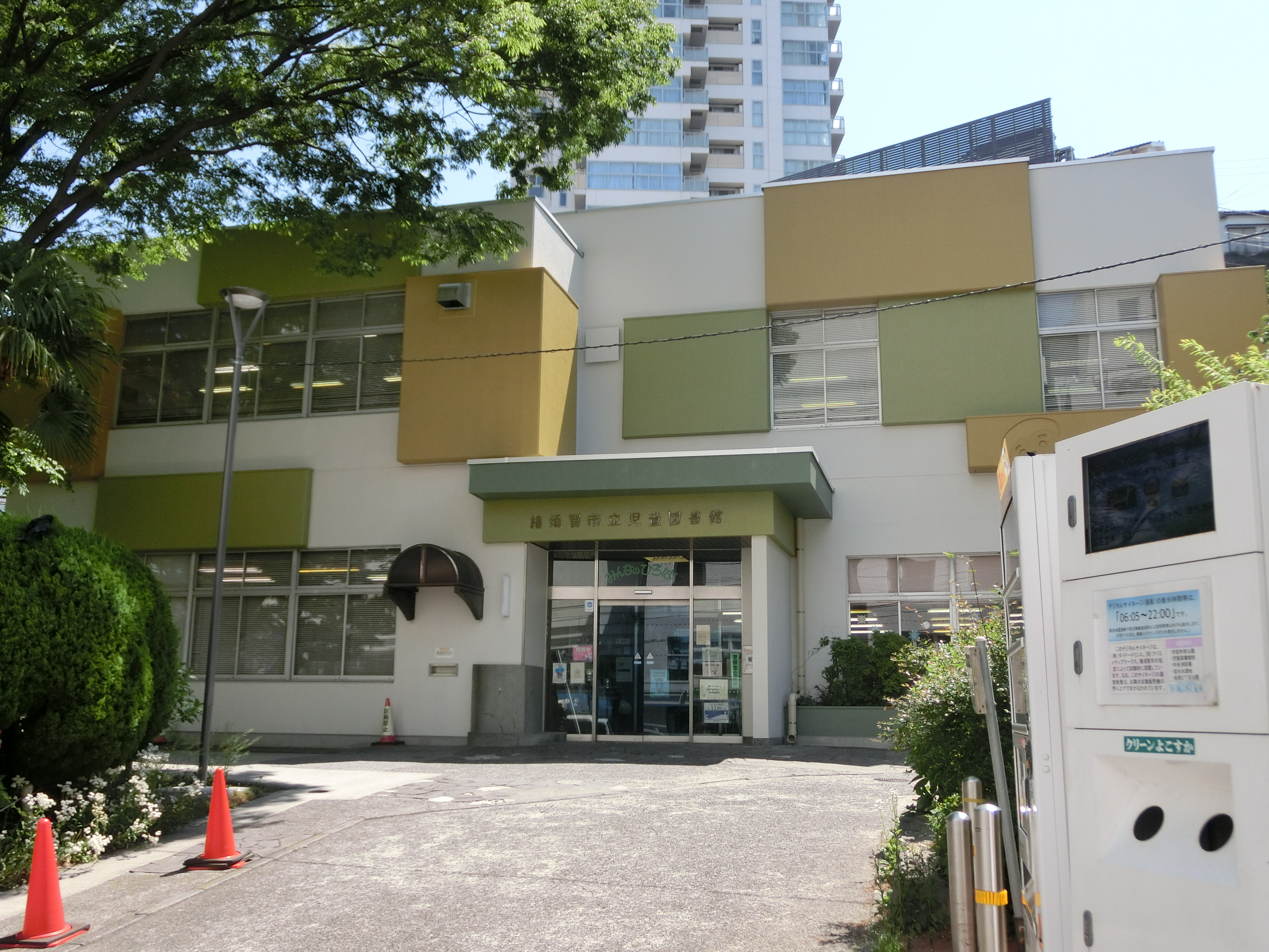 Yokosuka Children's Library